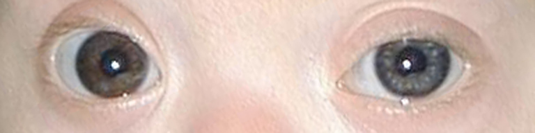 A cropped photo of the eyes of a baby with Down Syndrome. Brushfield spots are visible between the inner and outer circle of the iris.